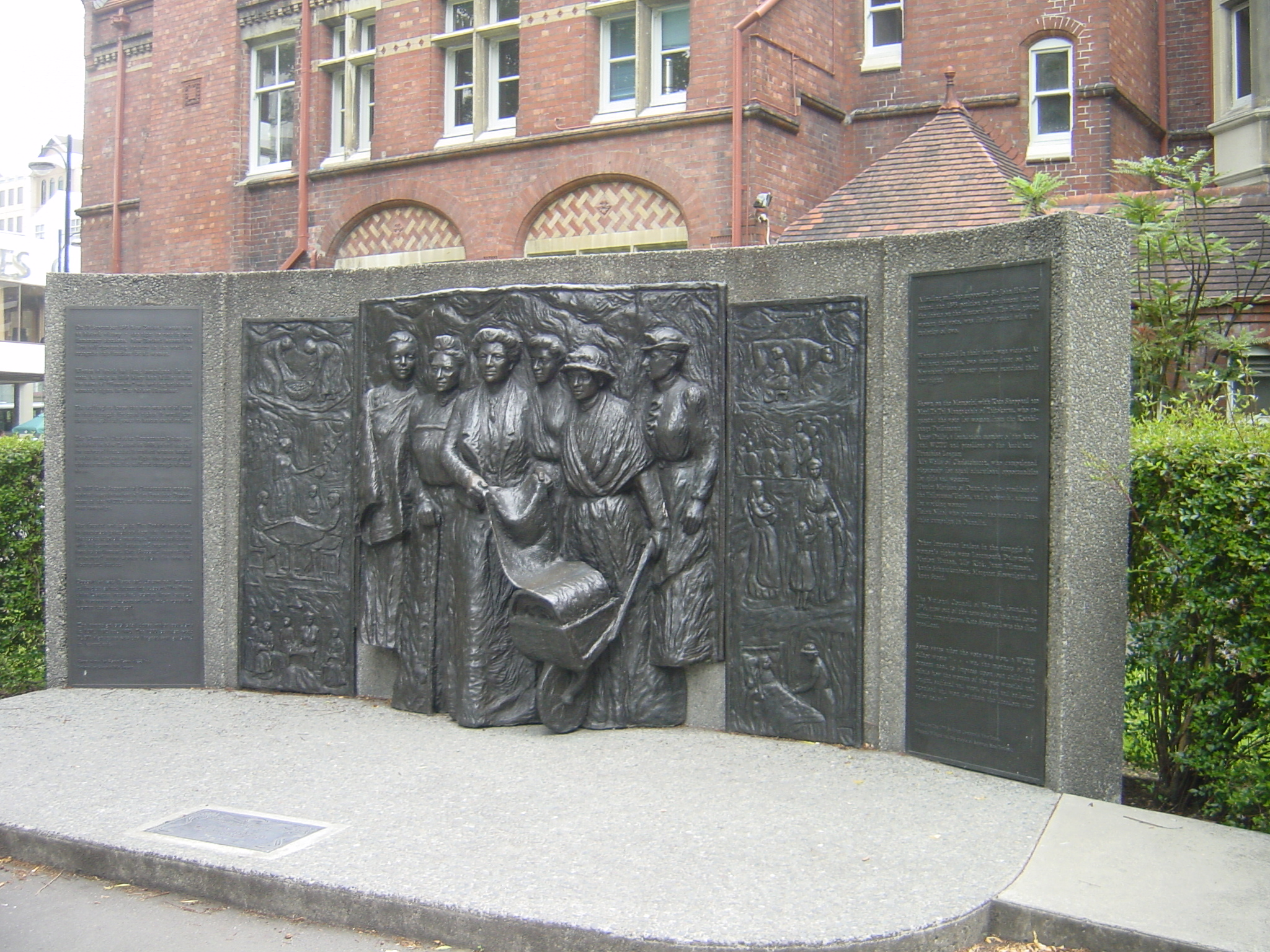 The Kate Sheppard National Memorial (in full, the Kate Sheppard National Memorial to Women’s Suffrage, sometimes inaccurately known as Tribute to the Suffragettes), a bronze bas-relief by Margriet Windhausen unveiled in 1993, depicts six of New Zealand's most prominent suffragists (the term suffragette was not in use in NZ at the time): Kate Sheppard (1847–1934), Meri Te Tai Mangakāhia (1868–1920), Amey Daldy (1829–1920), Ada Wells (1863–1933), Harriet Morison (1862–1925), and Helen Nicol (1854–1932). The words can be viewed here.